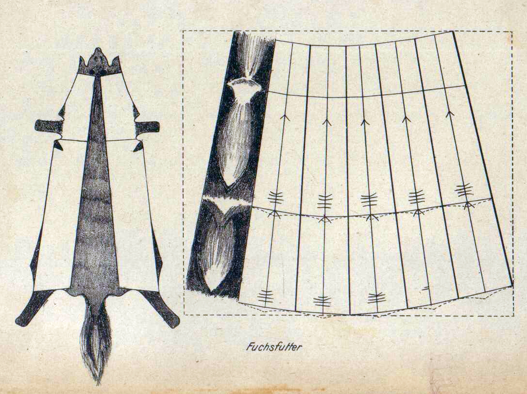 Graphics for Furriers - Lining of fox bellies